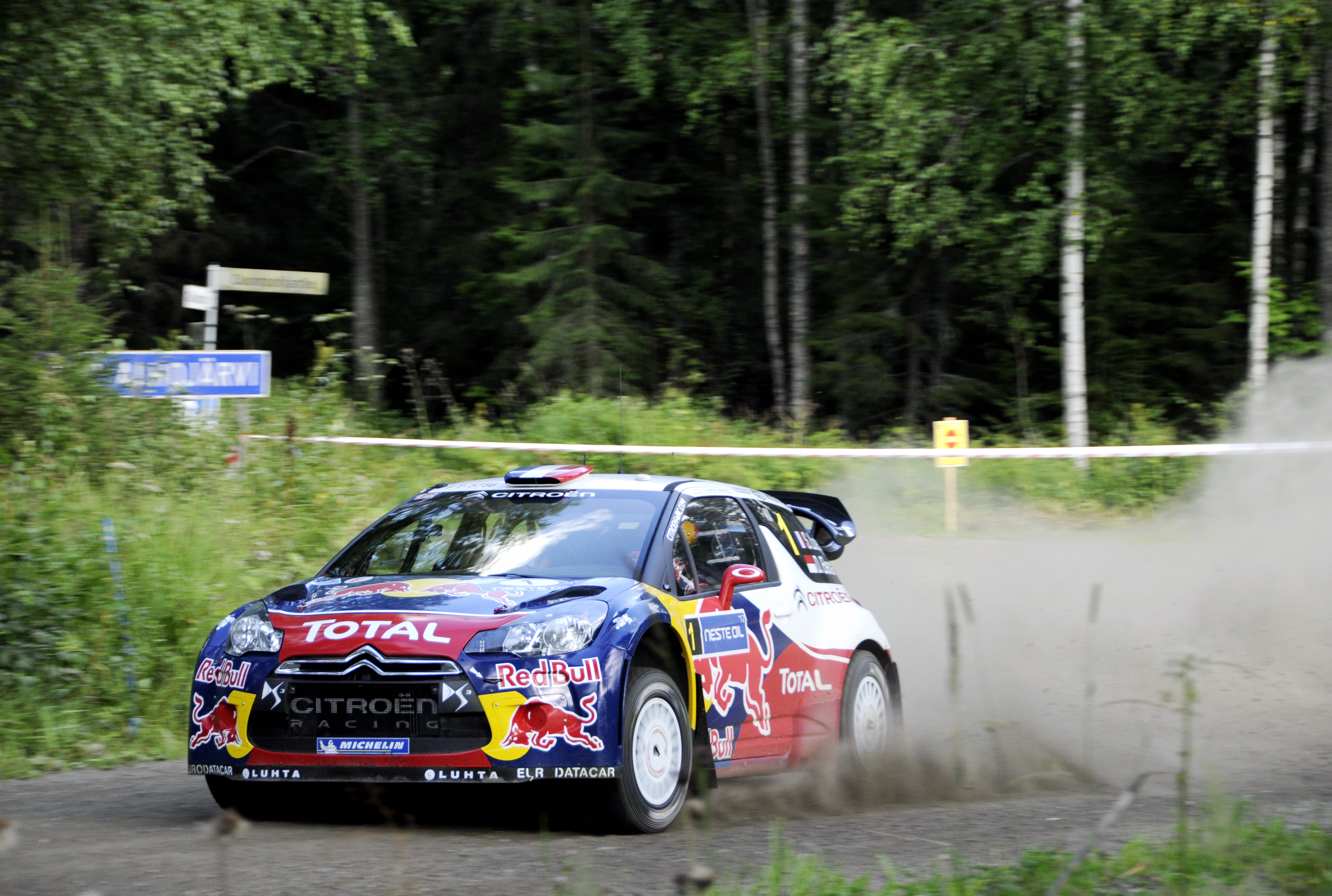 Sébastien Loeb at 2012 Rally Finland